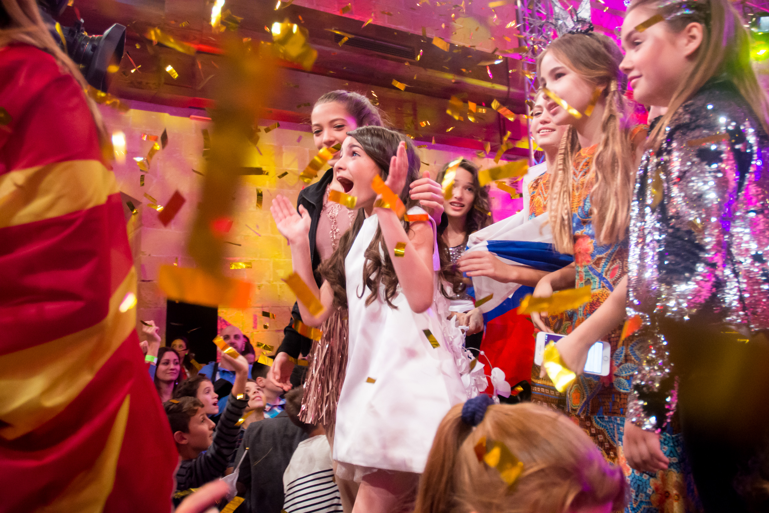 Mariam Mamadashvili, winner of JESC 2016